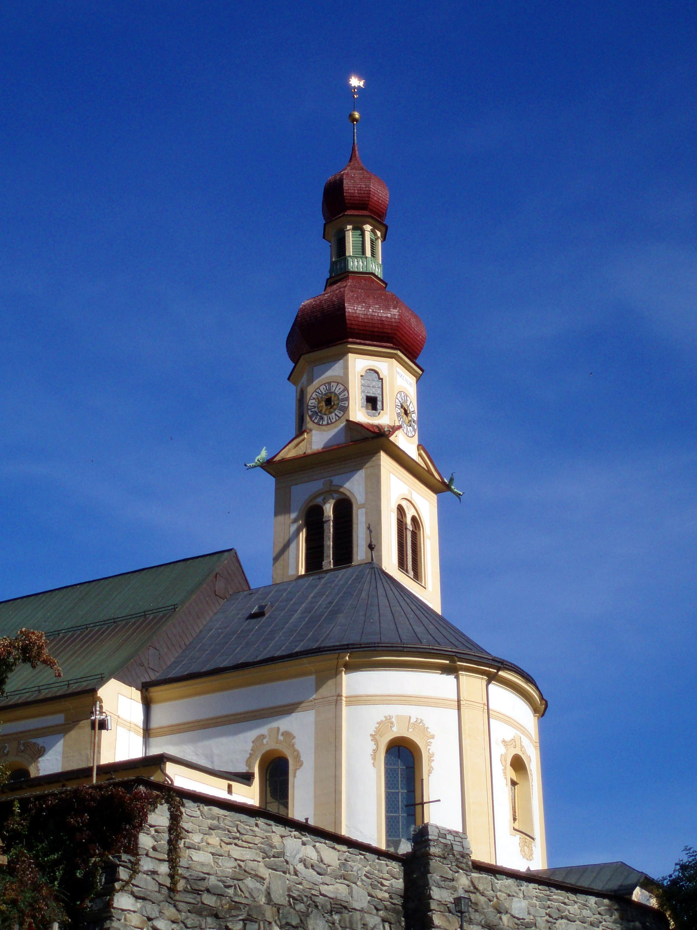 Fulpmes, St Vitus' Parish Church from south.